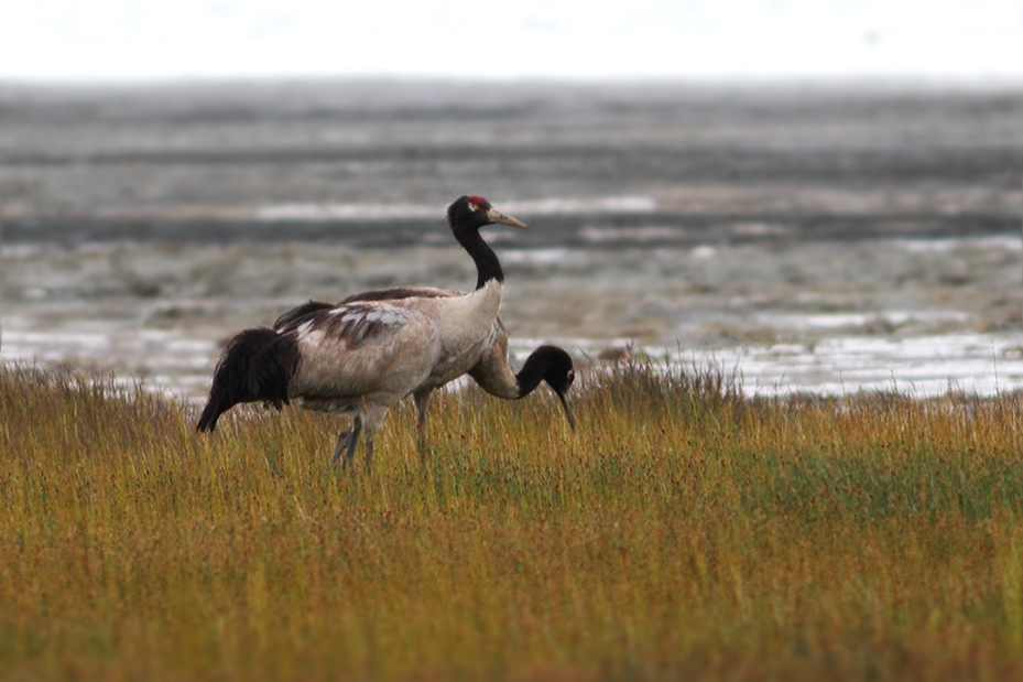 Photographed one is a Black-necked Crane. Only a handful of birds i.e. 100 odd of this species come to India every year for breeding. IUCN red data status of this species is Vulnerable. Photographed has been taken by Dibyendu Ash during the wildlife photography tour to Tso Kar, Ladakh province, Jammu and Kashmir, India conducted by GoingWild (website: ).